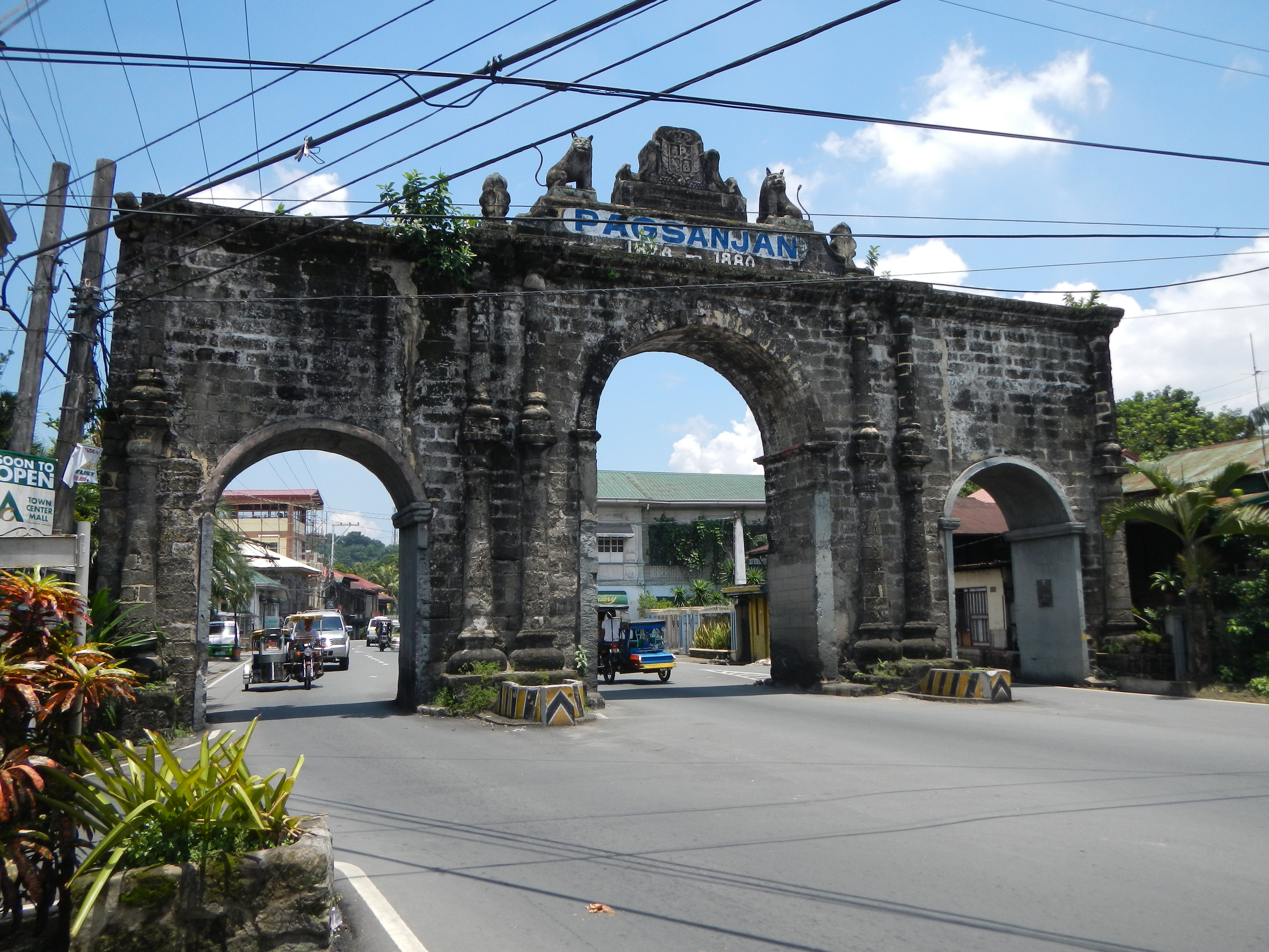 UploadWizard photos -- (General description, 3-dimension angle by angle photography of the landmarks) --- of -Caltex gas station, Perry's Fuel Distribution, Inc., SLEX[1] South Luzon Expressway Southbound, Mamplasan, Biñan, officially, the Biñan City [2] - Greenstar and HM Transport terminal, Jollibee, Barangay Sampaloc, 1878-1880 Town Gate - of ---Pagsanjan, Laguna [3] Restoration of the Historic Town Gate [4]Battle of Pagsanjan [5]